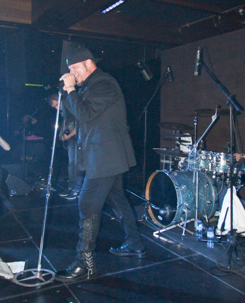 The American heavy metal vocalist Tim "Ripper" Owens performing with the Bulgarian band B.T.R. at Sofia Live Club.